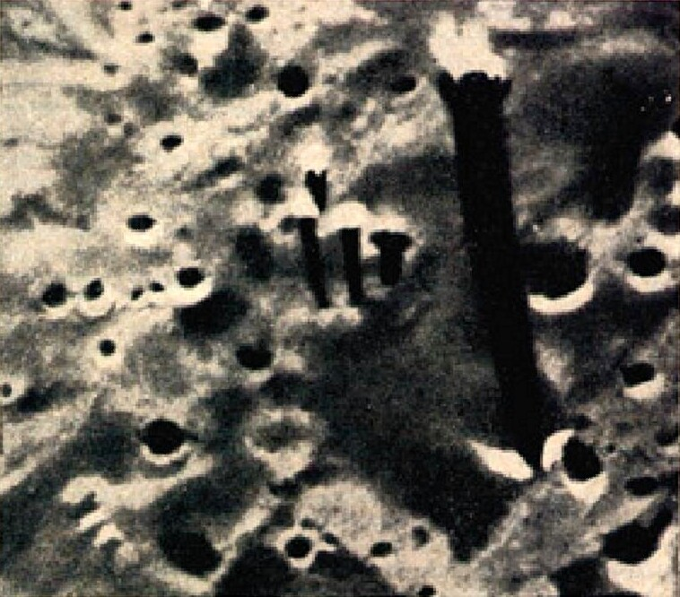 NASA Photograph taken by Lunar Orbiter 2 on November 20, 1966, twenty-nine miles above the lunar surface, over the Sea of Tranquility.